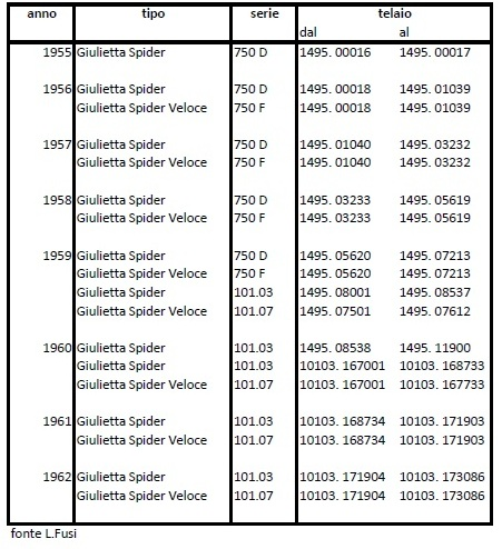 Alfa Romeo Giulietta Spider production file win-engine